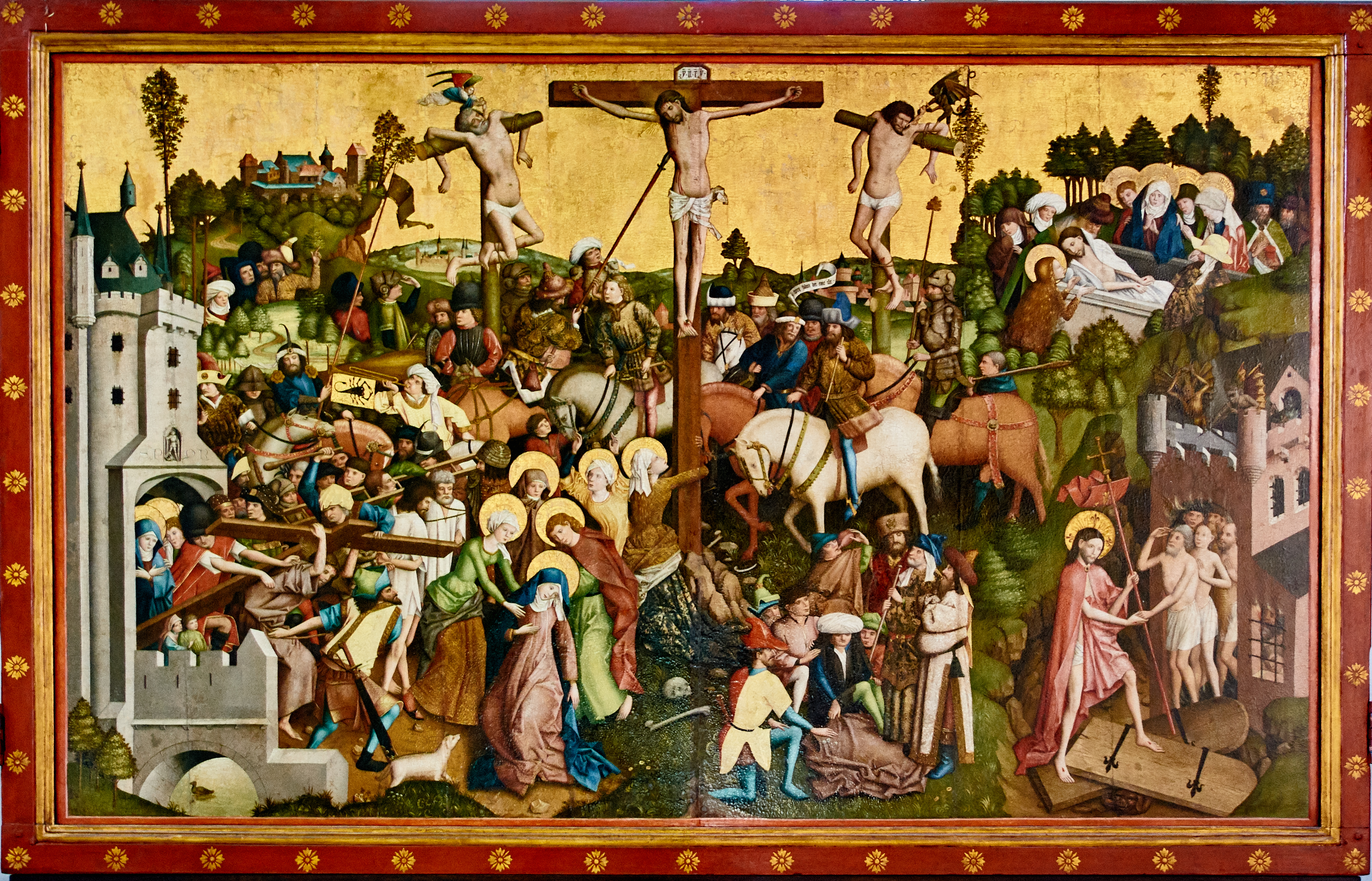 Gothic altar in Schöppingen, North Rhine-Westphalia, Germany. This is a photograph of an architectural monument.